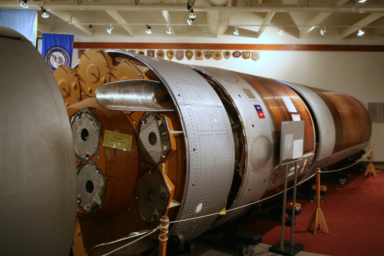 The only one of its kind to be on public display, a Poseidon C-3 missile with all of its electronics, hydraulics and propulsion elements still intact, is on display for visitors to examine at USS Bowfin Submarine Museum & Park. This massive cutaway mock-up weighs 12,000 pounds, is 34 feet long and is 74 inches in diameter. The C-3 strategic missile was capable of being launched from a submerged Fleet Ballistic Missile submarine. The first submarine to carry and launch a C-3 missile was USS James Madison (SSBN-627) in August of 1970. The missile was donated to the Museum by the U.S. Navy through Lockheed Missile and Space Company, which manufactured the C-3 missiles for the Navy. See also: UGM-73 Poseidon